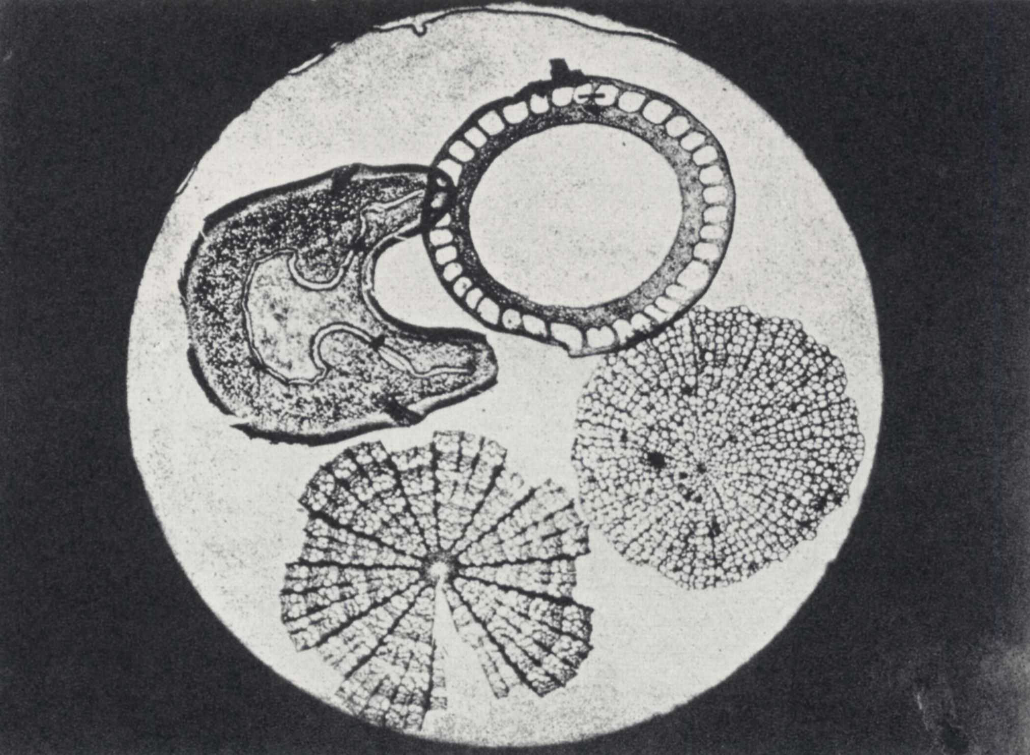 Image produced by a solar microscope